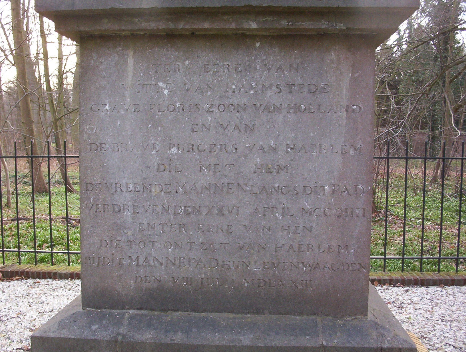 Photo of inscription of the monument 'De Naald' in Heemstede, on the Herenweg (property of "Huis te Manpad").